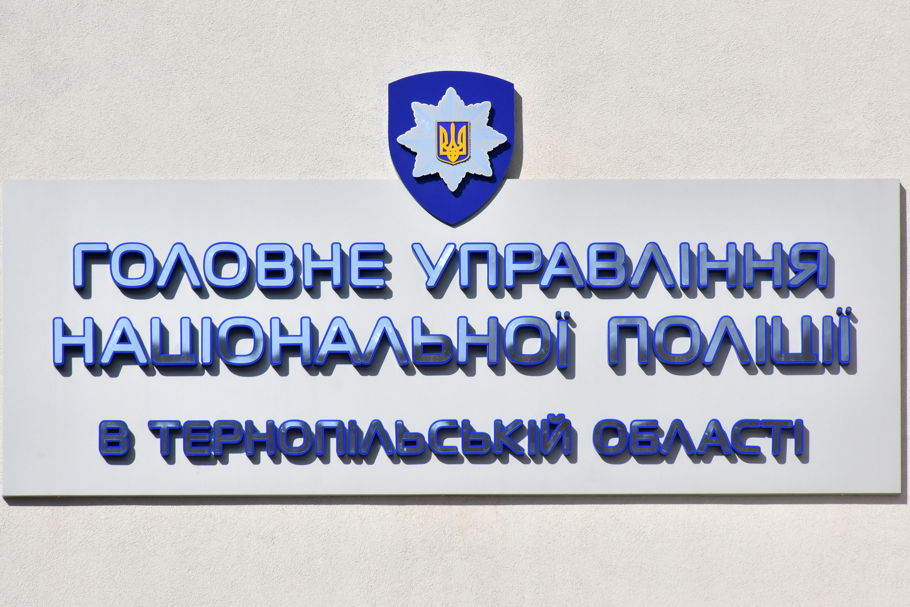 Main Department of National Police in Ternopil Region